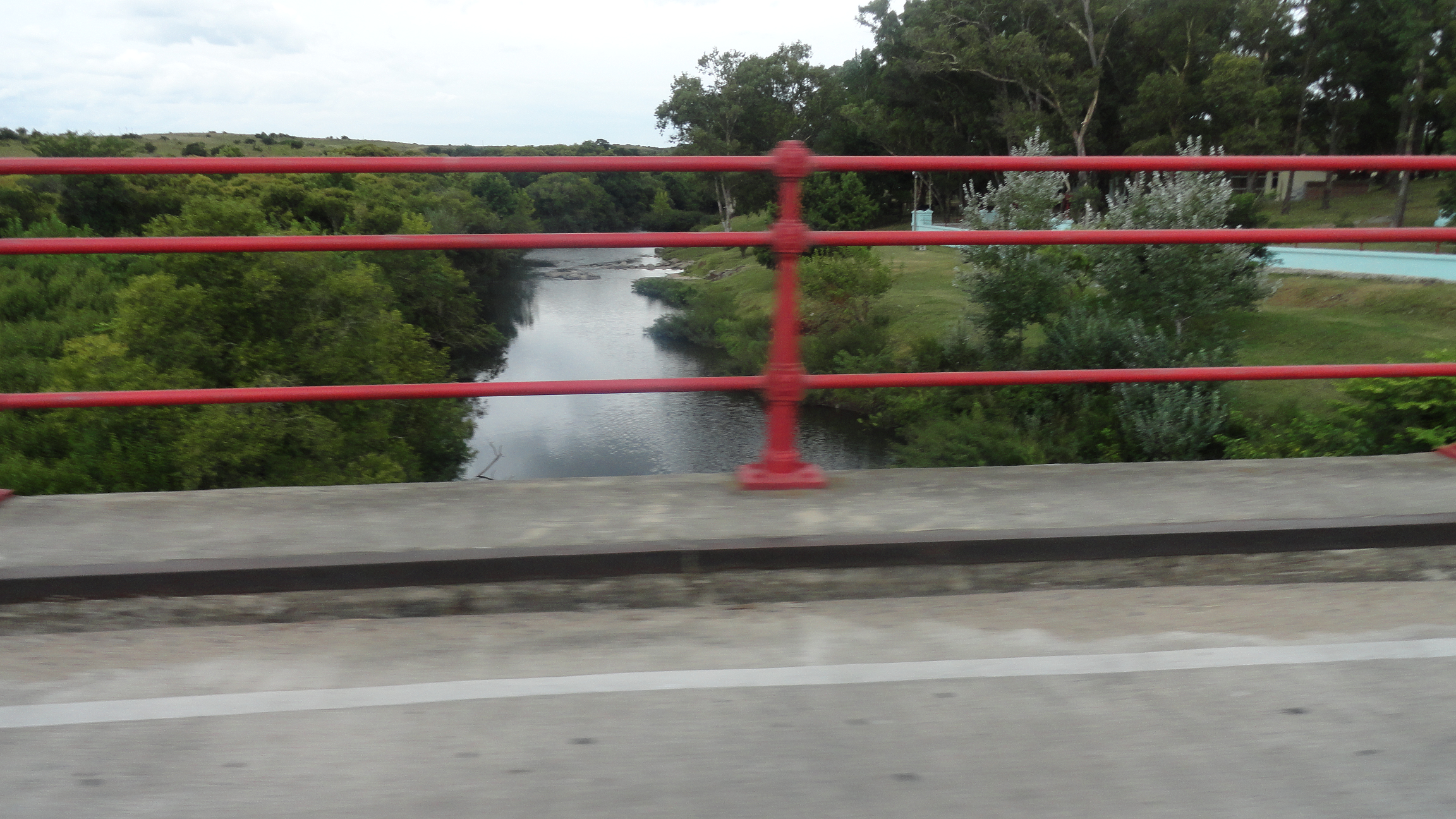 Arroyo Colla, Rosario del Colla, Colonia Uruguay DSC06935 2013feb17